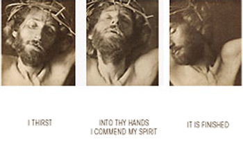 Fred Holland Day, Detail from the Seven last words of Christ series, which is also a selfportrait.